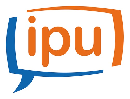 Itsenäisyyspuolueen logo